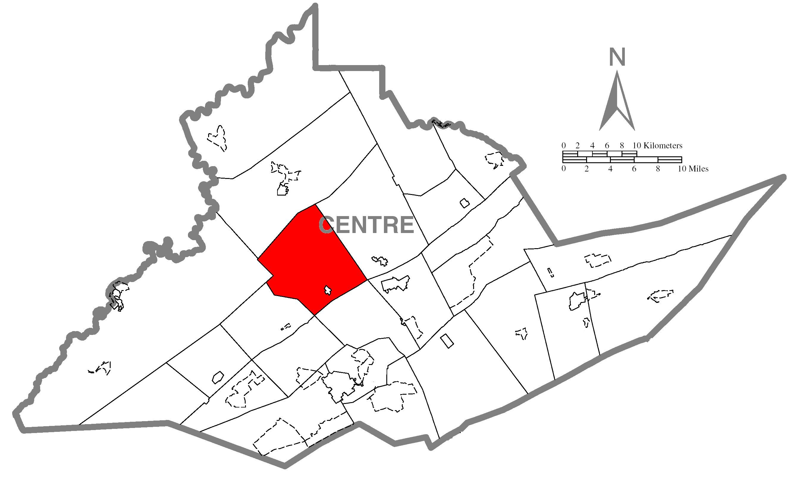 A map of Centre County showing Union Township, Pennsylvania (alternate) highlighted on the map.